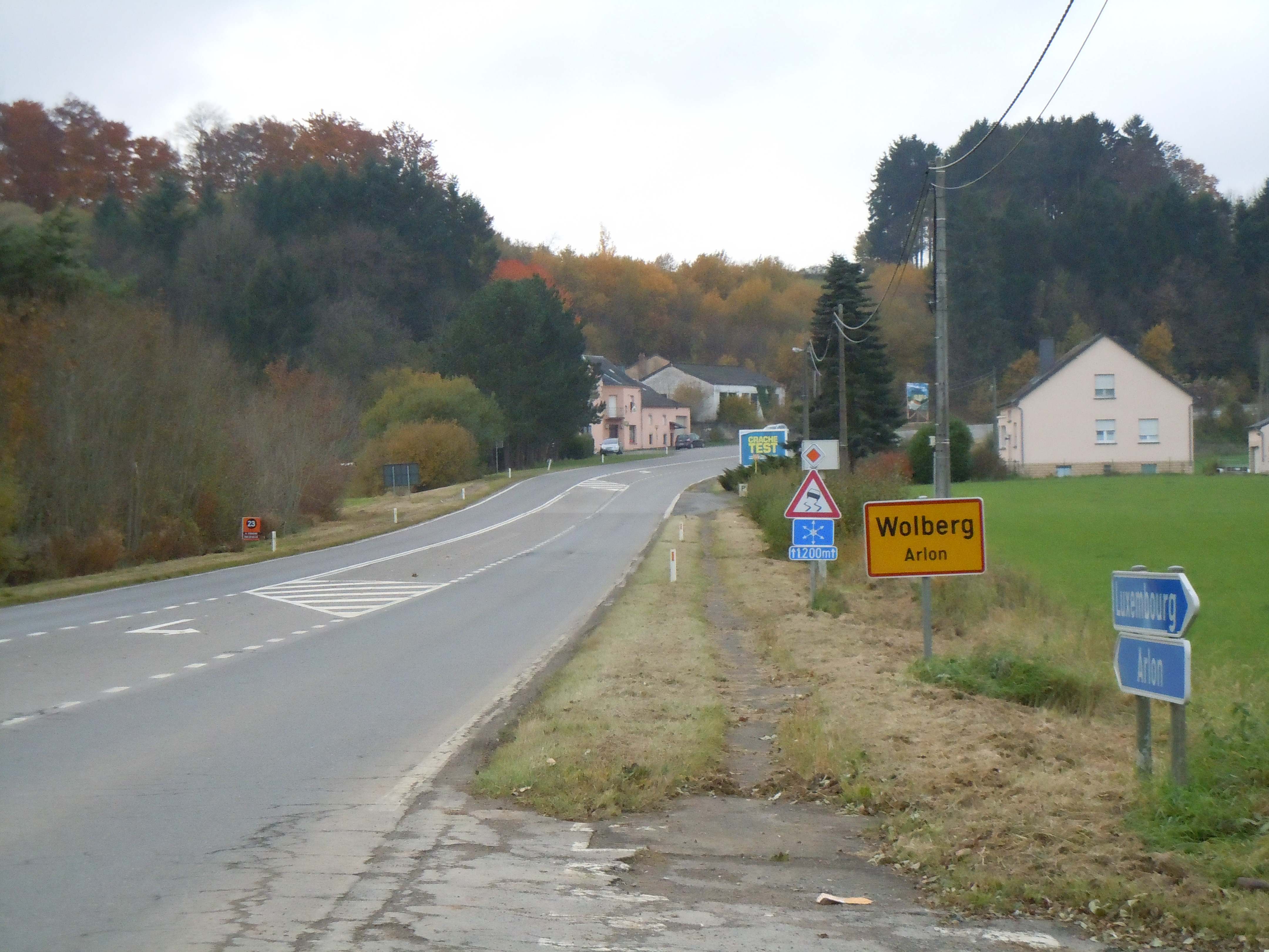 View of Wolberg, a place in the Belgian municipality of Arlon, seen from the East. The N4 road makes a turn up a steep slope.